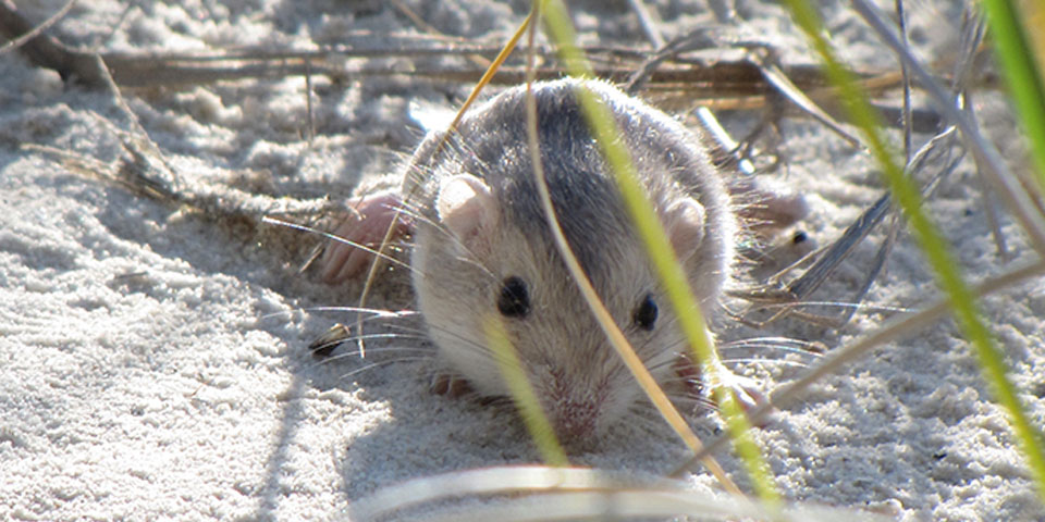 Apache pocket mouse (Perognathus flavescens apache)